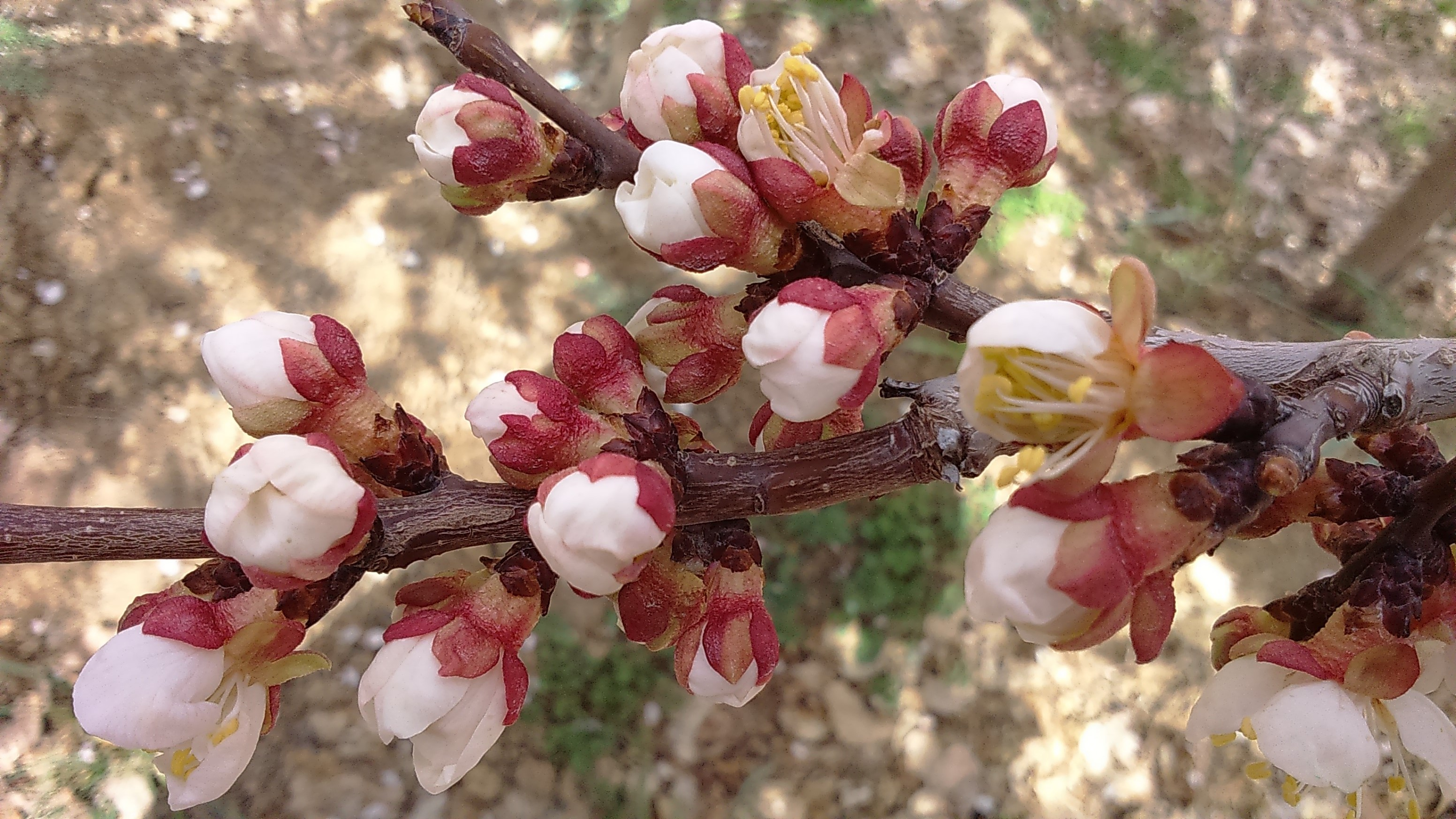 شکوفه بادام (روستای شنگل آباد)